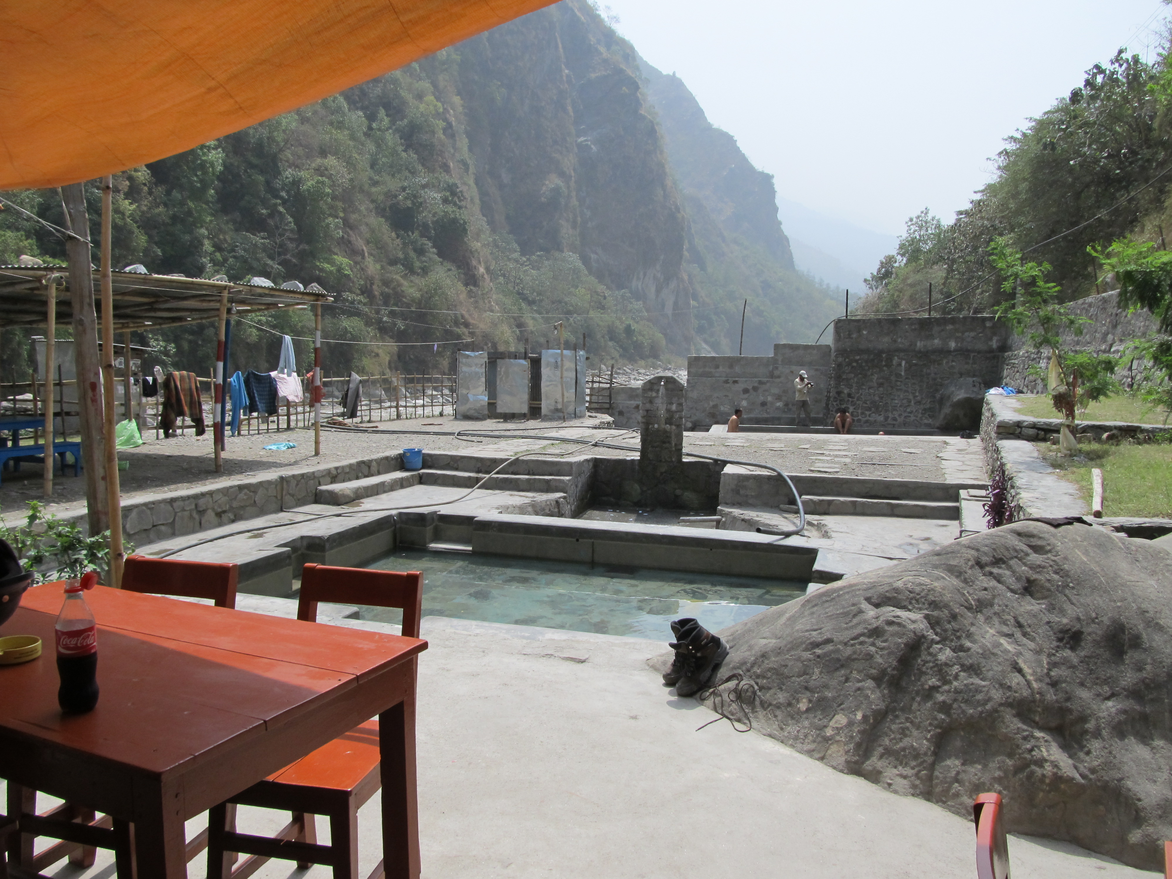 Hot springs of Tatopani (Hot Water) right by the river, looking downstream